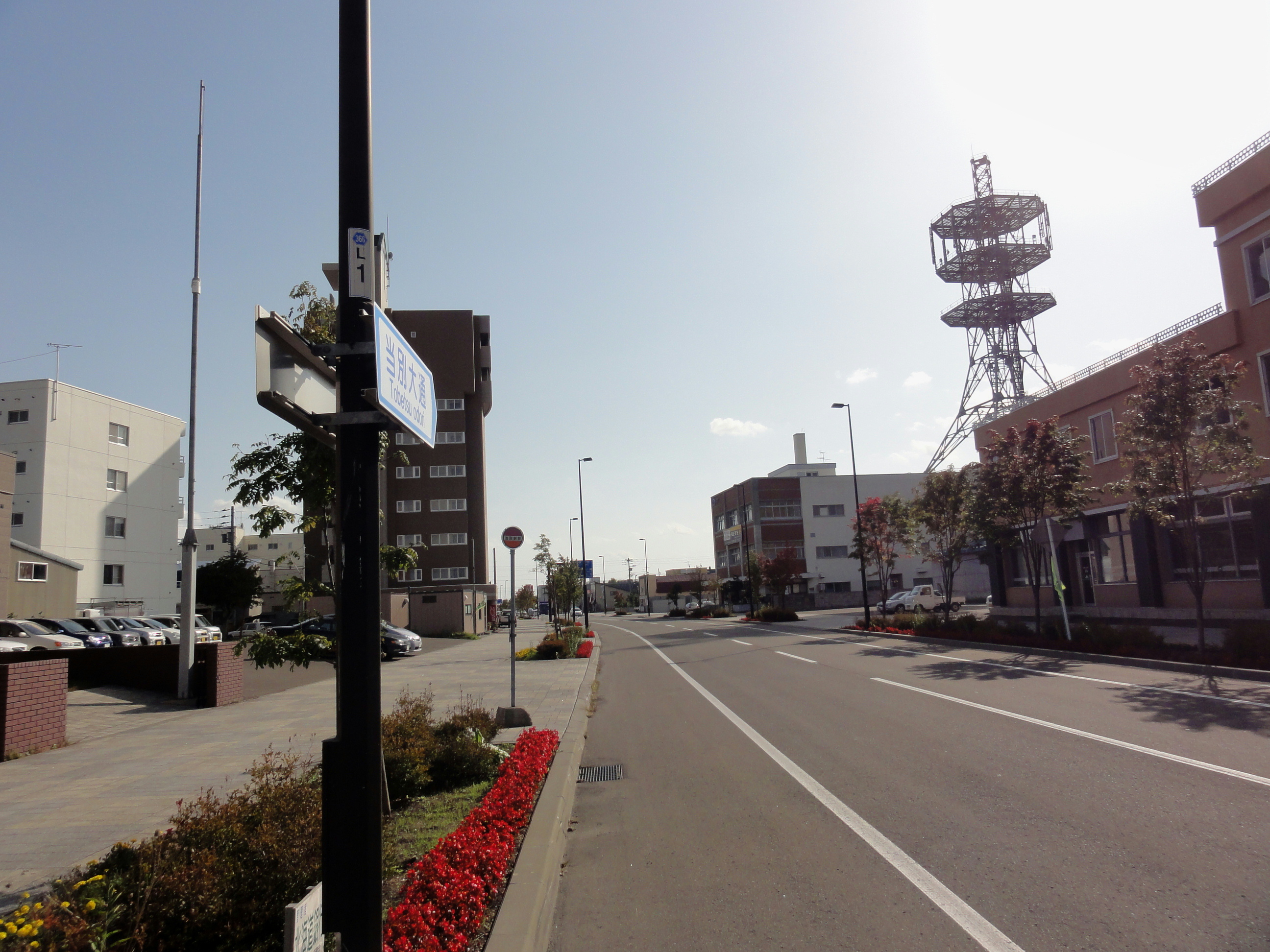 Hokkaido Pref Route 366 (Tōbetsu, Hokkaidō)